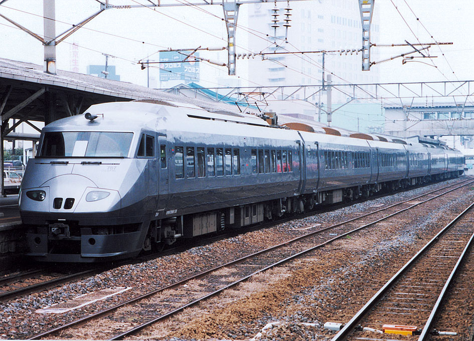 JR Kyushu 787 series EMU on a Kamome service